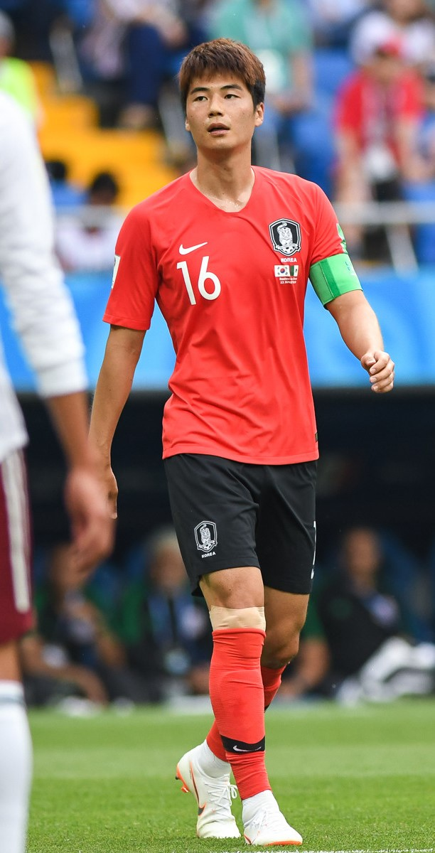 Mexico and South Korea match at the FIFA World Cup 2018-06-23